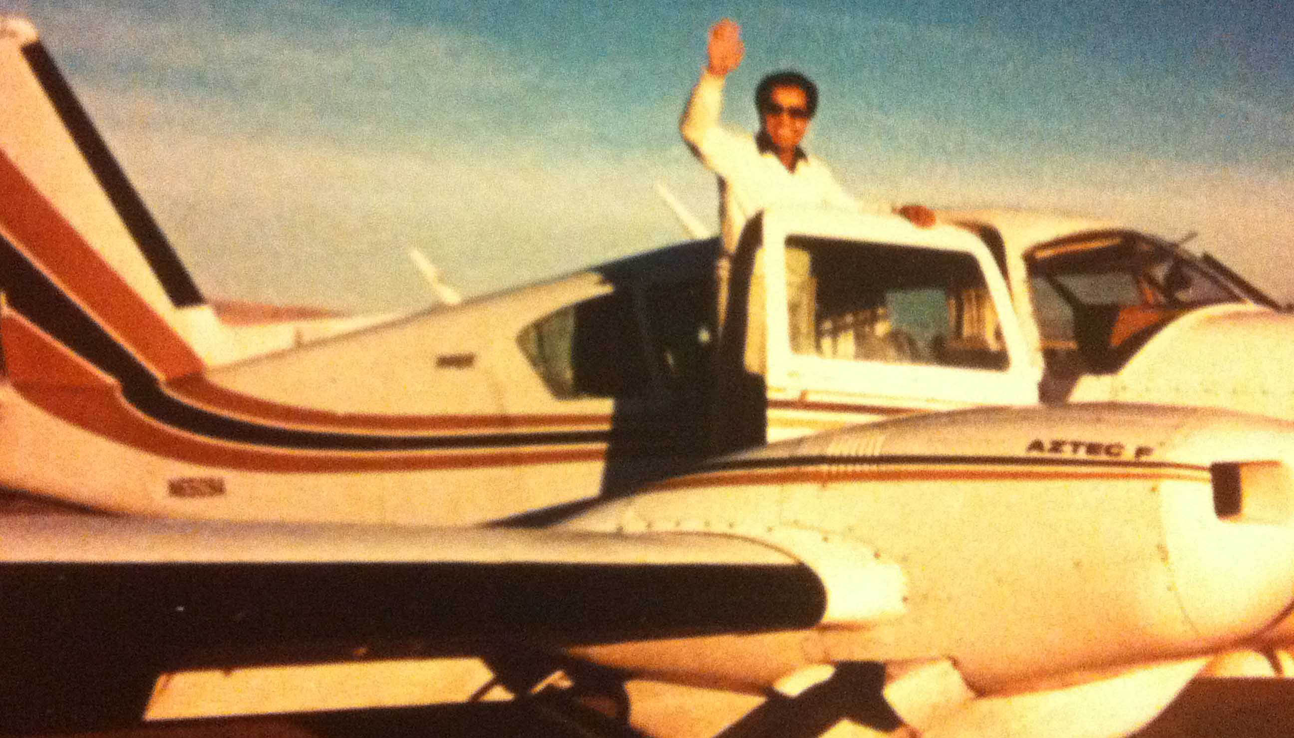 انوشیروان روحانی